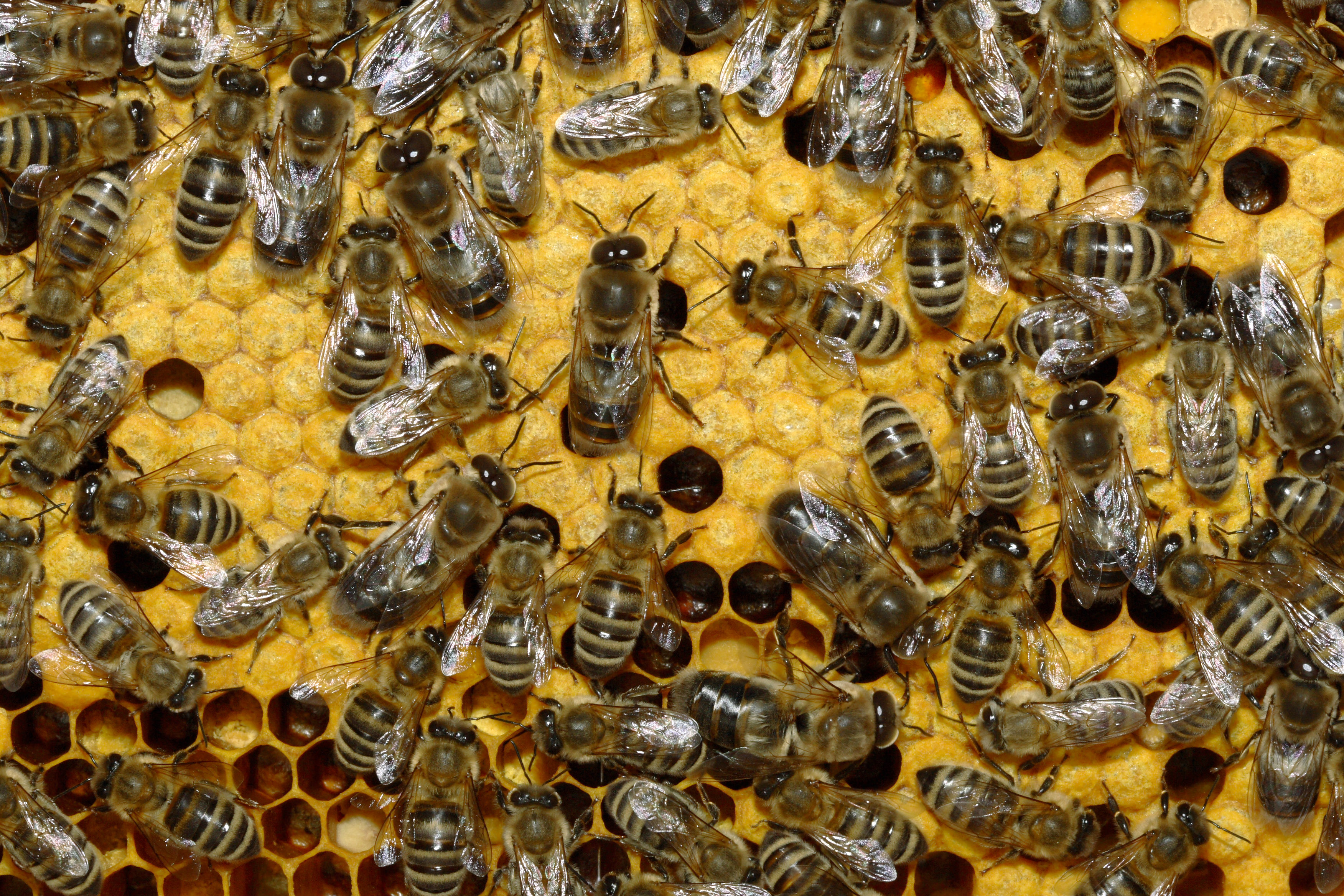 Bees and drones on a honeycomb